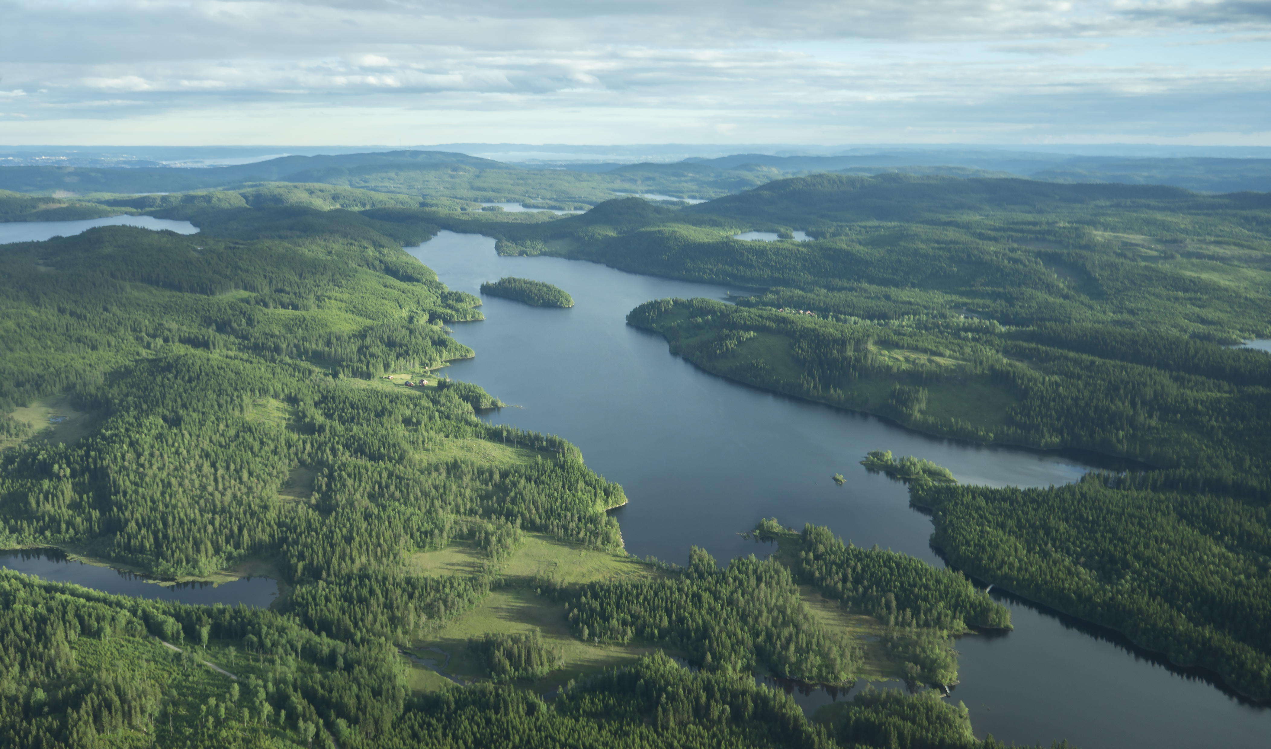 Hakloa lake in Nordmarka north of Oslo.